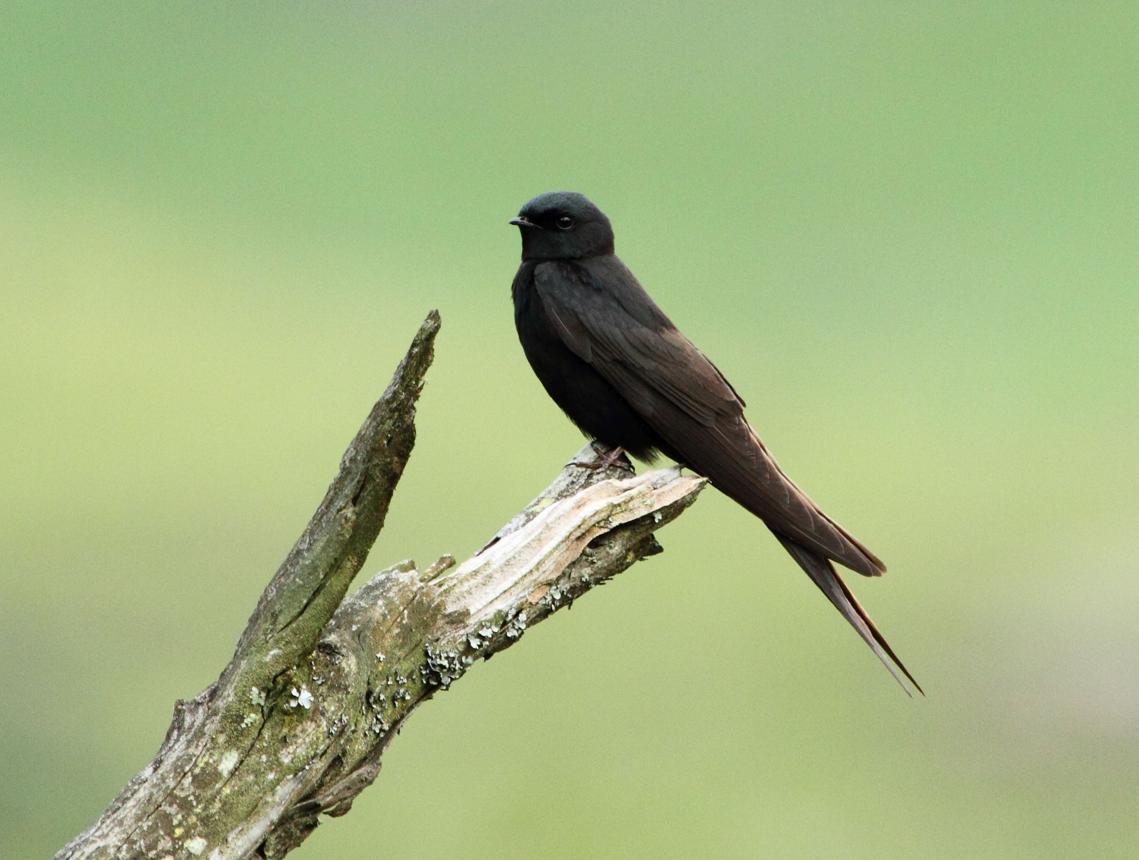 Black Saw-wing Psalidoprocne pristoptera at Giants Castle Game Reserve, KwaZulu-Natal Drakensberg.